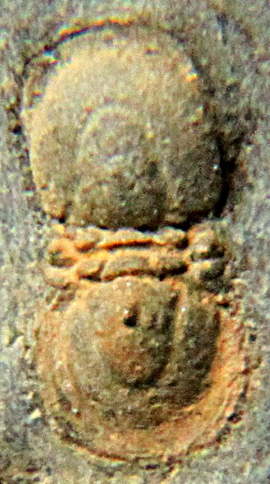 crop of File:Geragnostus mediterraneus CRF.jpg